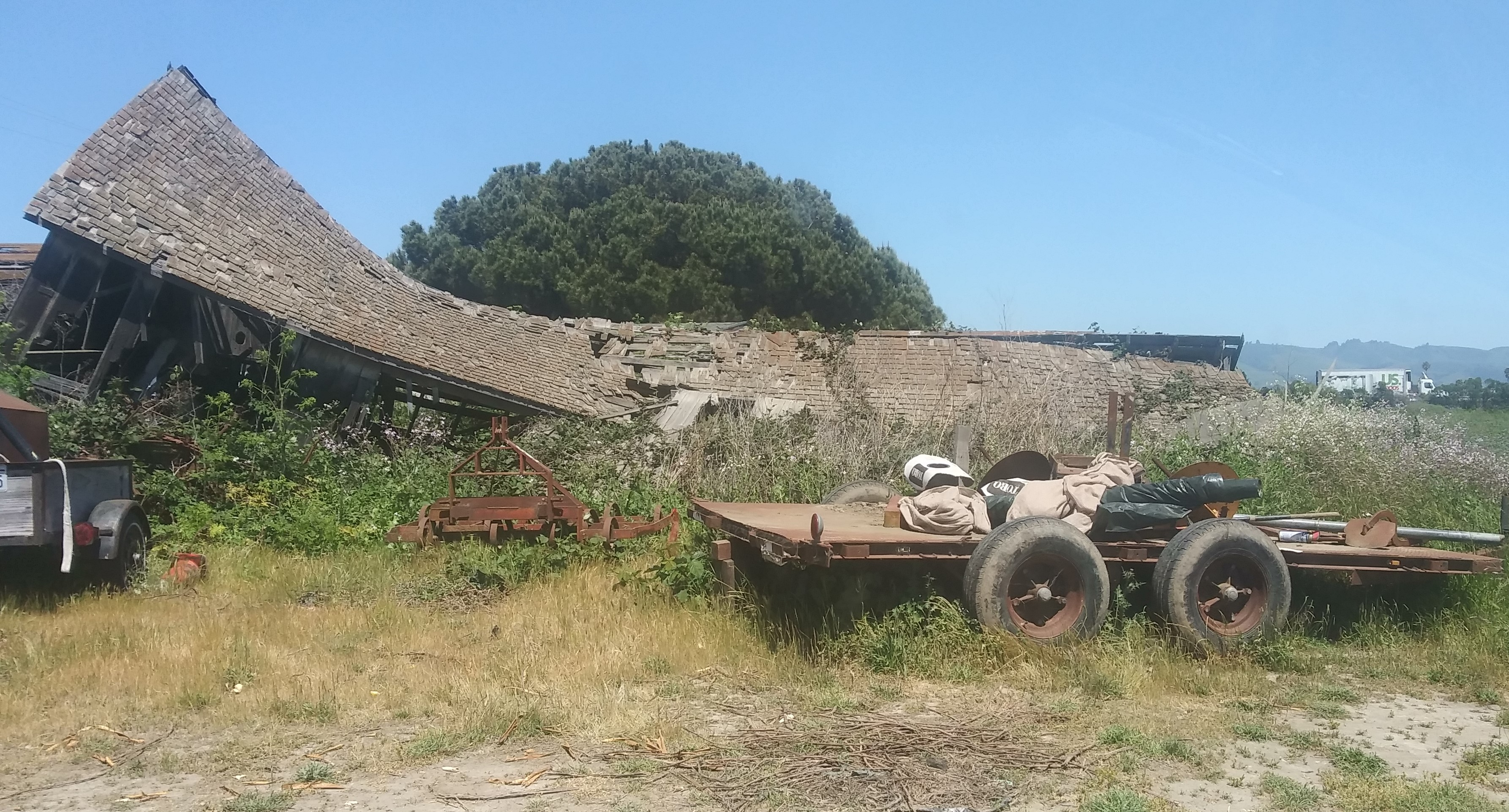 This is a photo of the barn fully collapsed. There is a trailer in the foreground. In background is a tree and behind that the hills northeast of Watsonville, Ca.